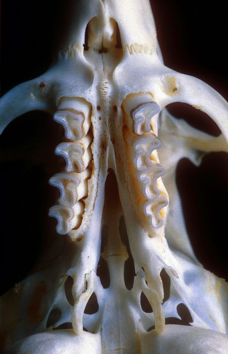 The jaw of Octodon degus